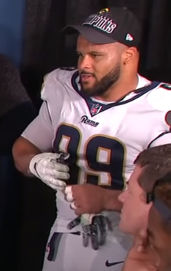 In 2019